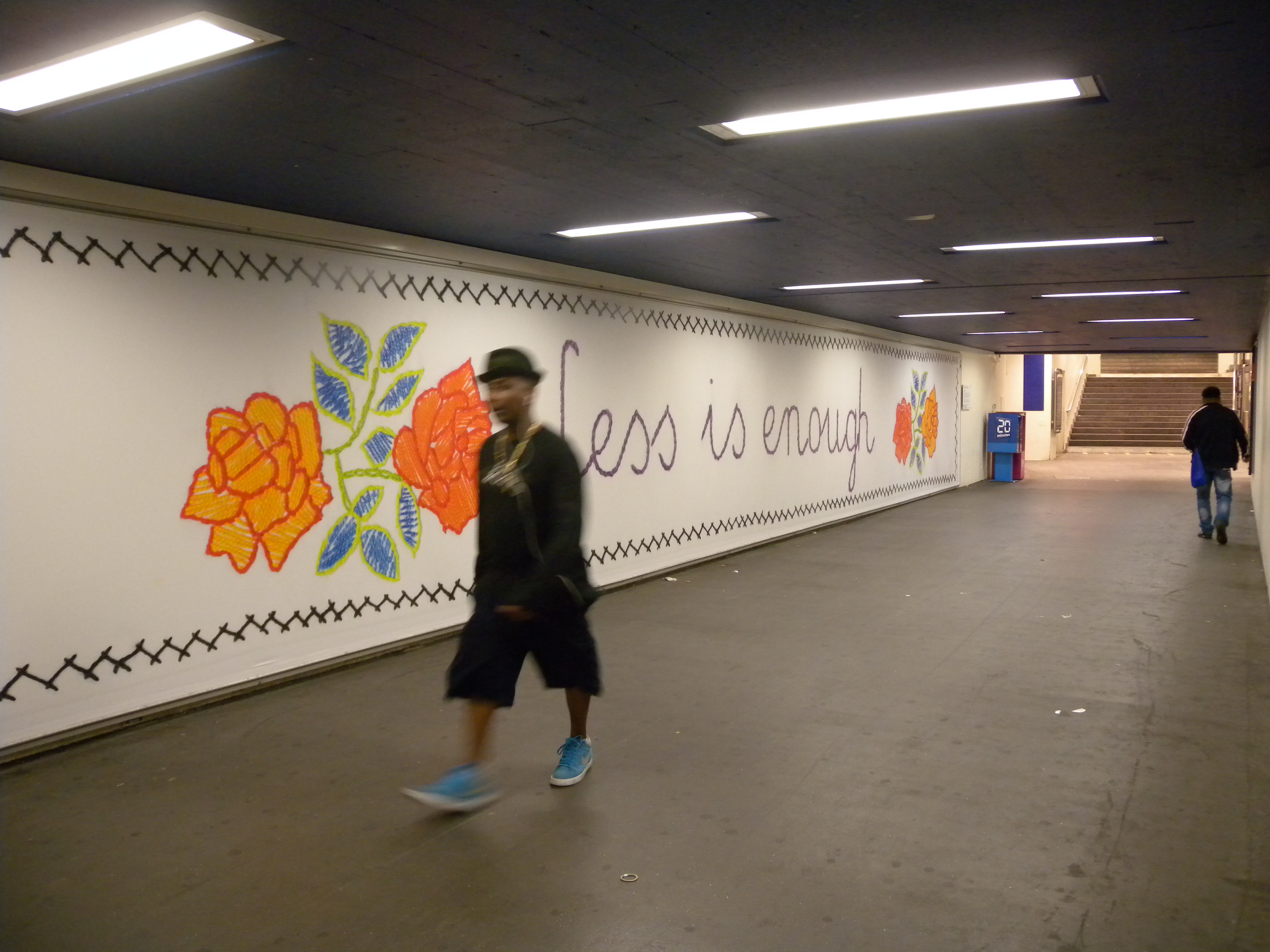 Monika Drożyńska "Less is enough", 2012.